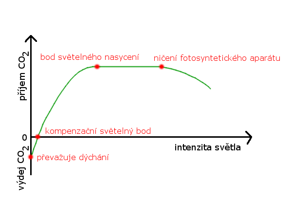 Photosynthesis - light graph